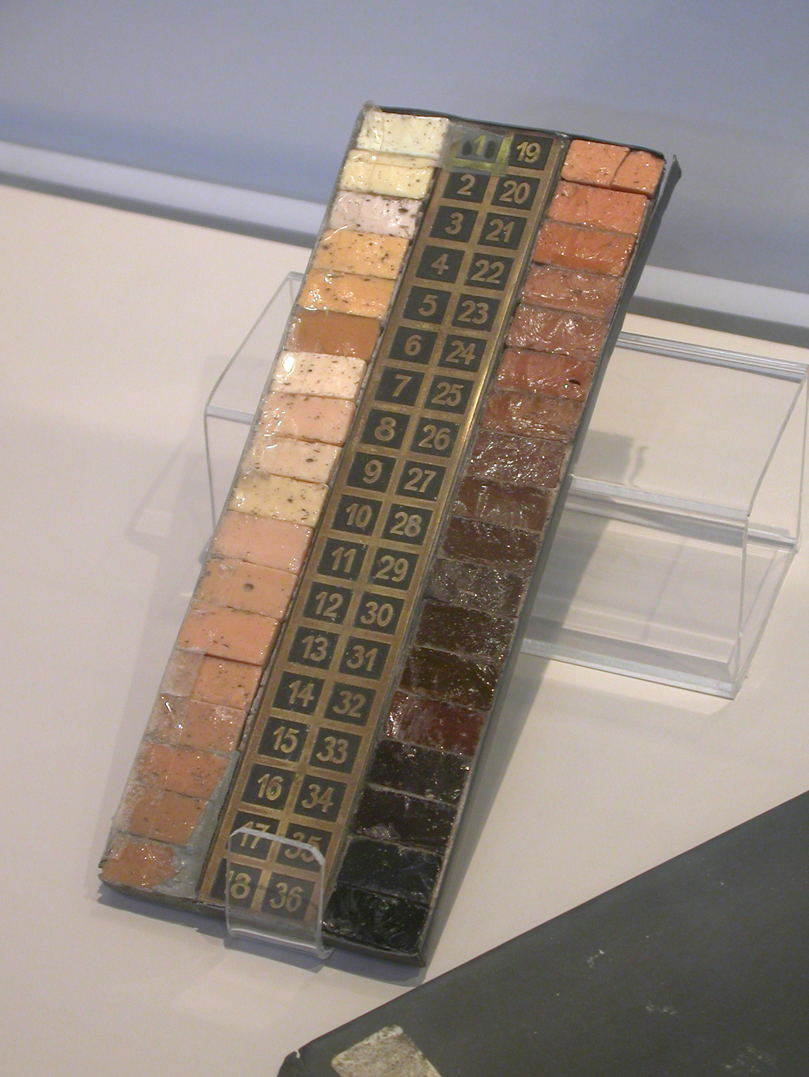 Von Luschan's chromatic scale, showing a range of human skin tones. Part of the Biologic Anthropology permanent exhibit at La Plata Museum, La Plata, Argentina.